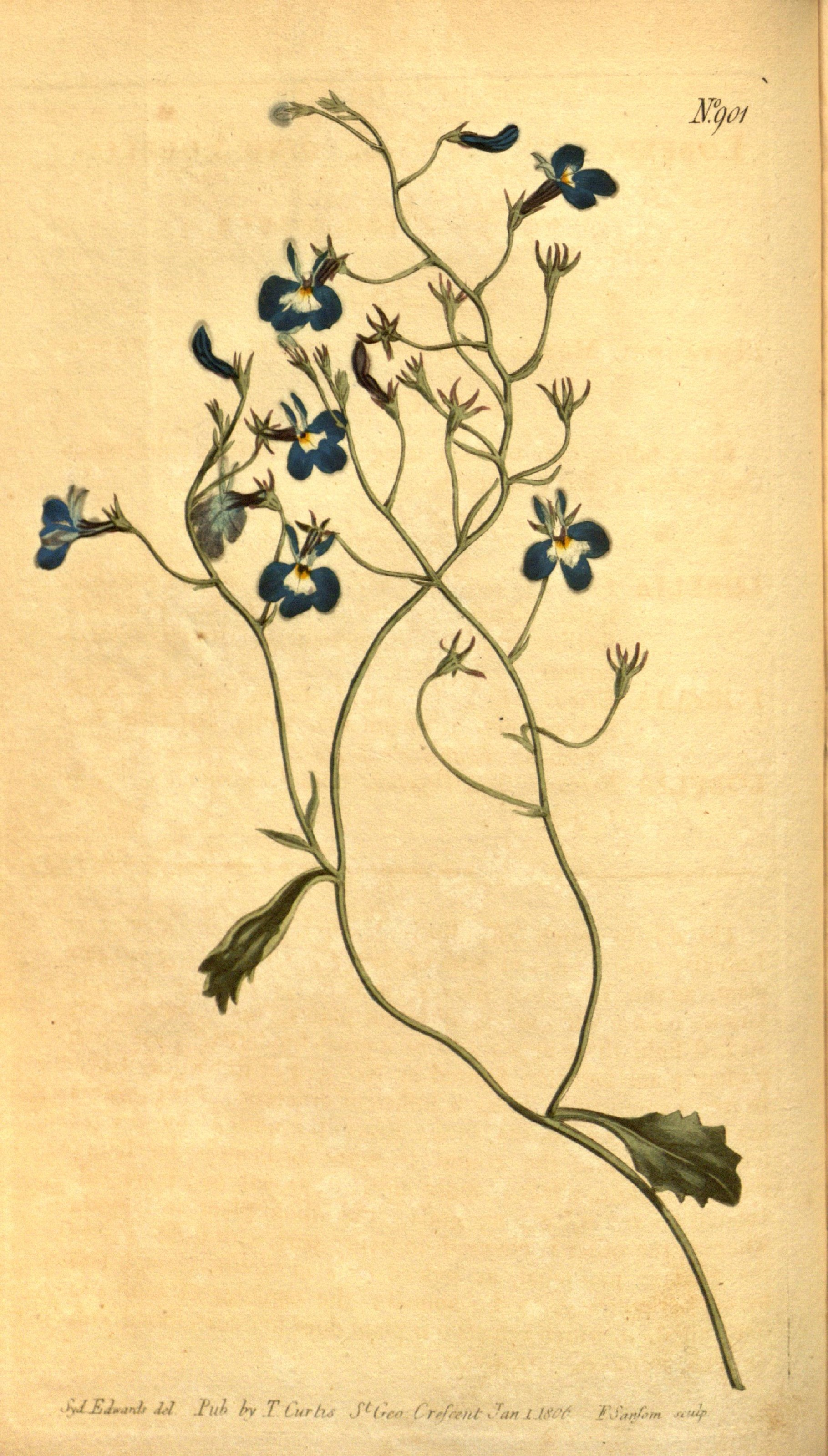 Curtis's botanical magazine.